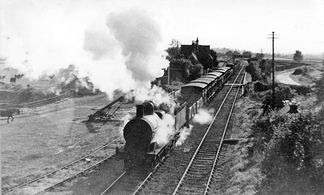 Ripple Station Southward view, towards Tewkesbury, of Ripple Station, with a Down Goods train leaving towards Malvern. Note that this is NOT 'Wrong Line Working', as the other track towards Tewkesbury was used for wagon storage only and the railway was effectively Single Line.